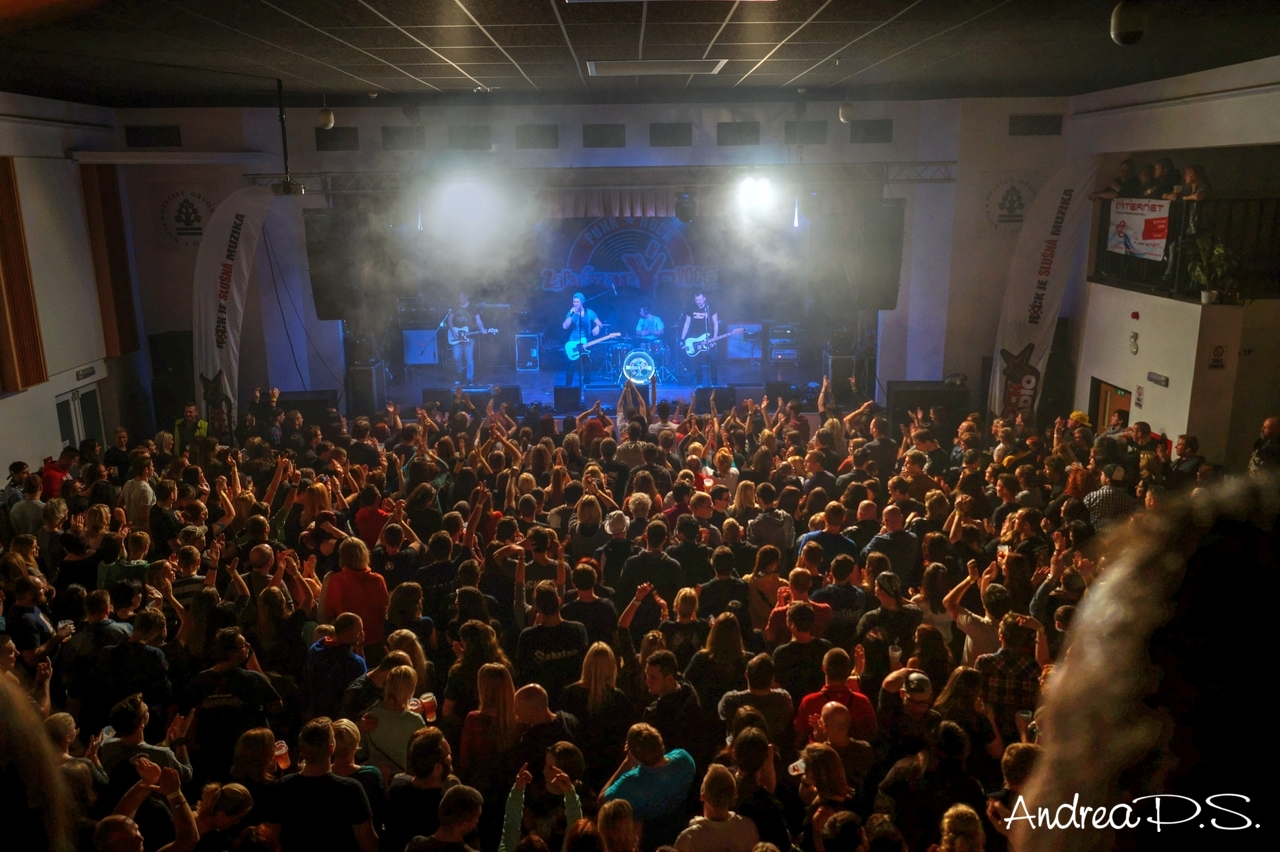 foto: Andrea Sládečková zakázanÝovoce - Plzeň, KD Šeříkovka 2016